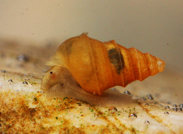 Pyrgula annulata, Lake Garda, Italy